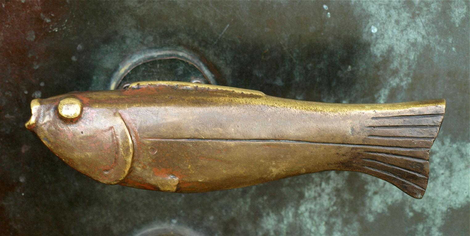 Uetersen (Schleswig-Holstein, Germany), church of Redeemer, handgrip